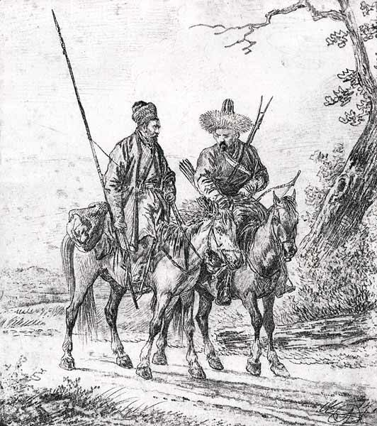 Two bashkirs horsemen